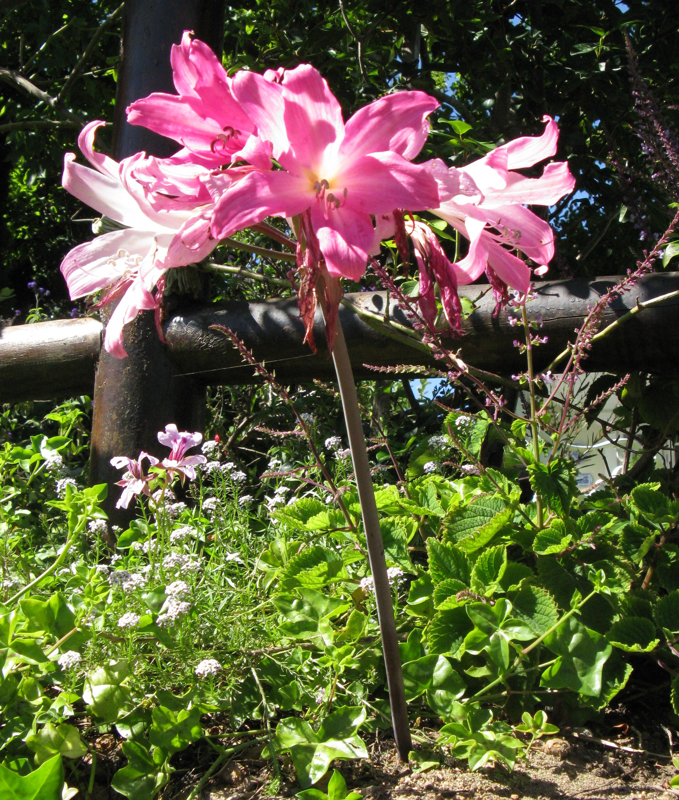 Amaryllis belladonna in flower in a garden, showing scape